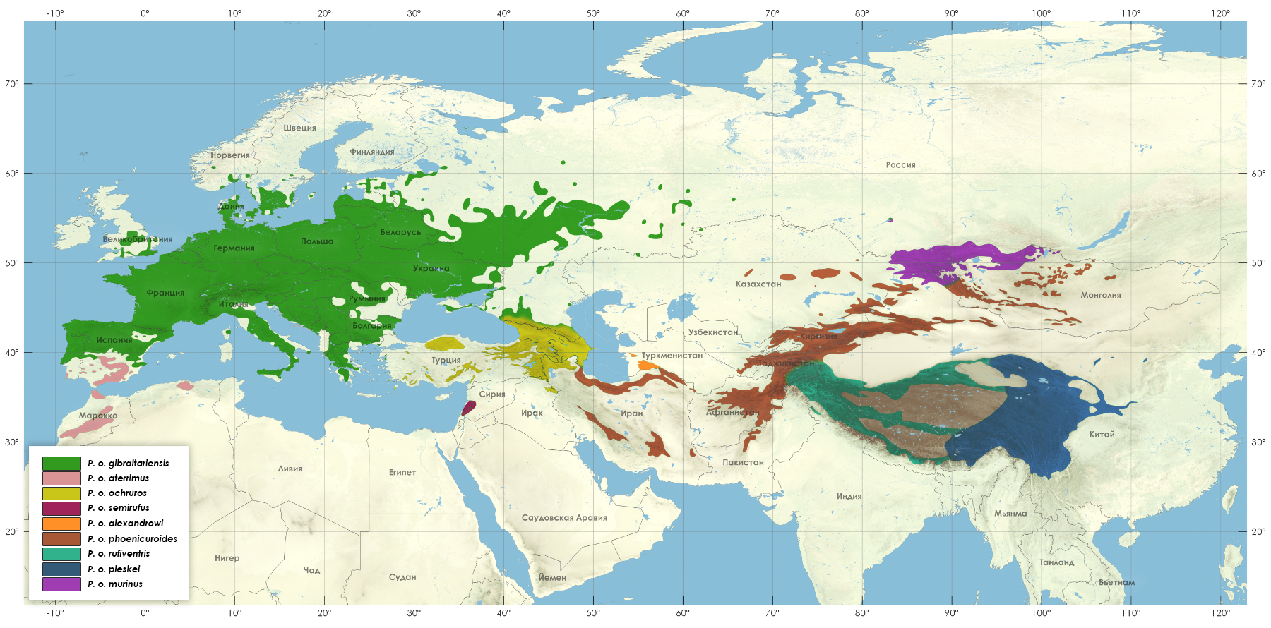 Map of Black Redstart (Phoenicurus ochruros) subspecies distribution